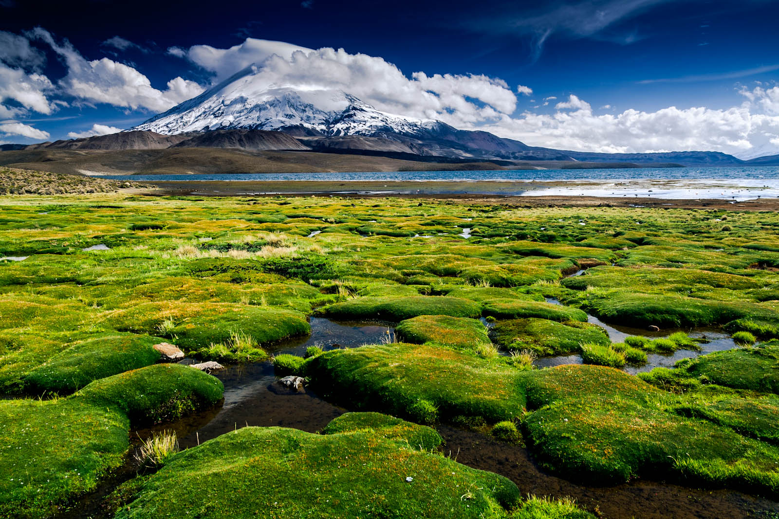 This is a photo of a national monument in Chile: 265